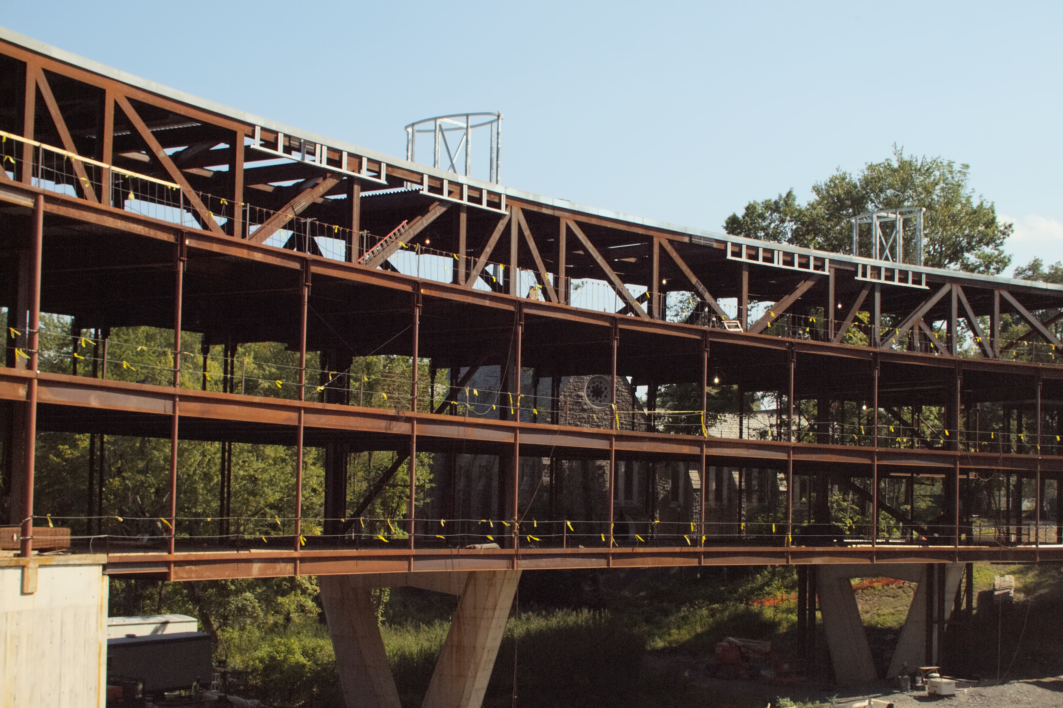 The Vassar College bridge science center under construction in the town of Poughkeepsie, New York, US.